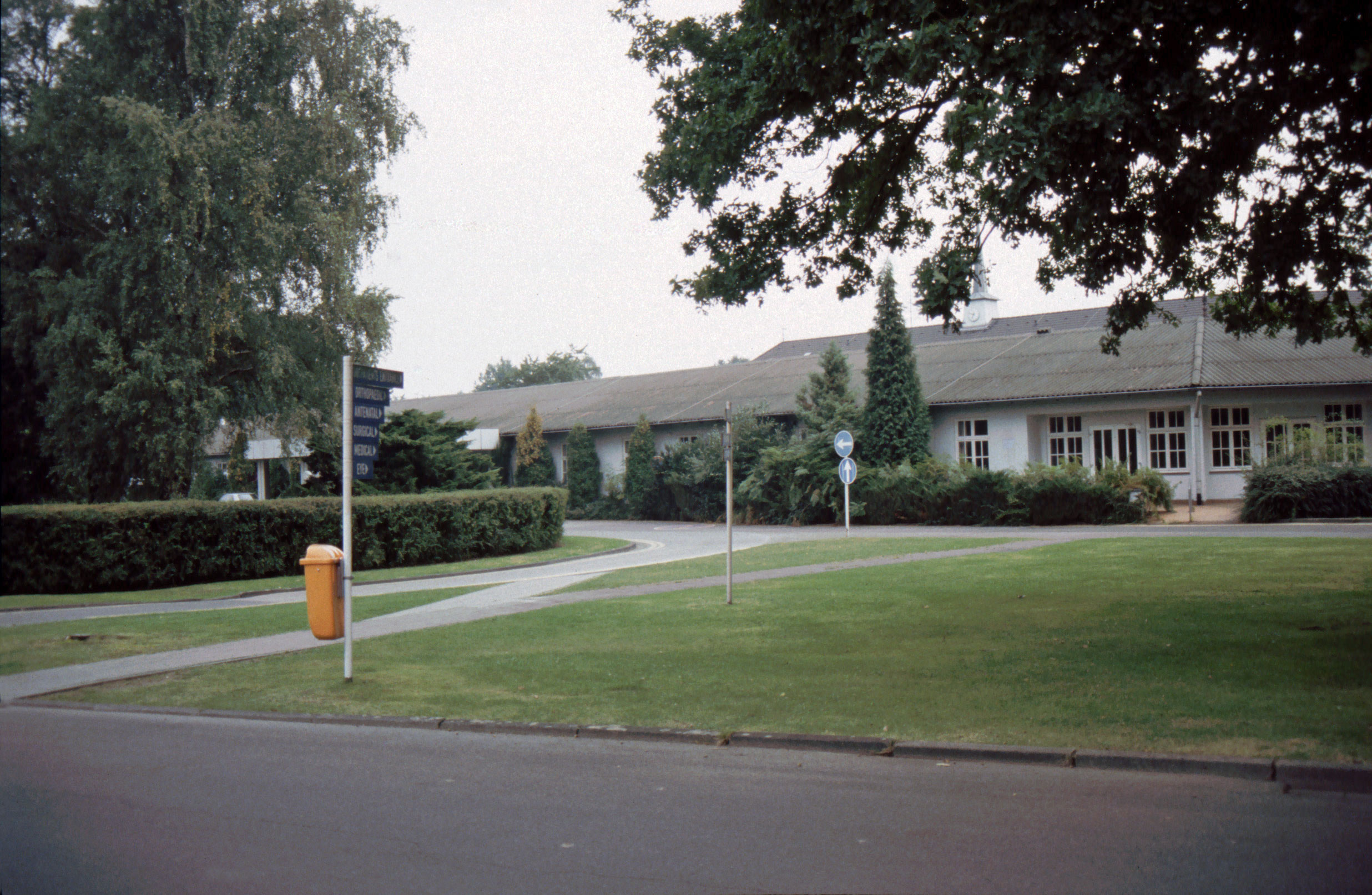 The front entrance is visible through the trees on the left and the clock tower on the central building is visible top centre. Although closed for 2 years, the department direction signs are still in place. Taken in 1998.